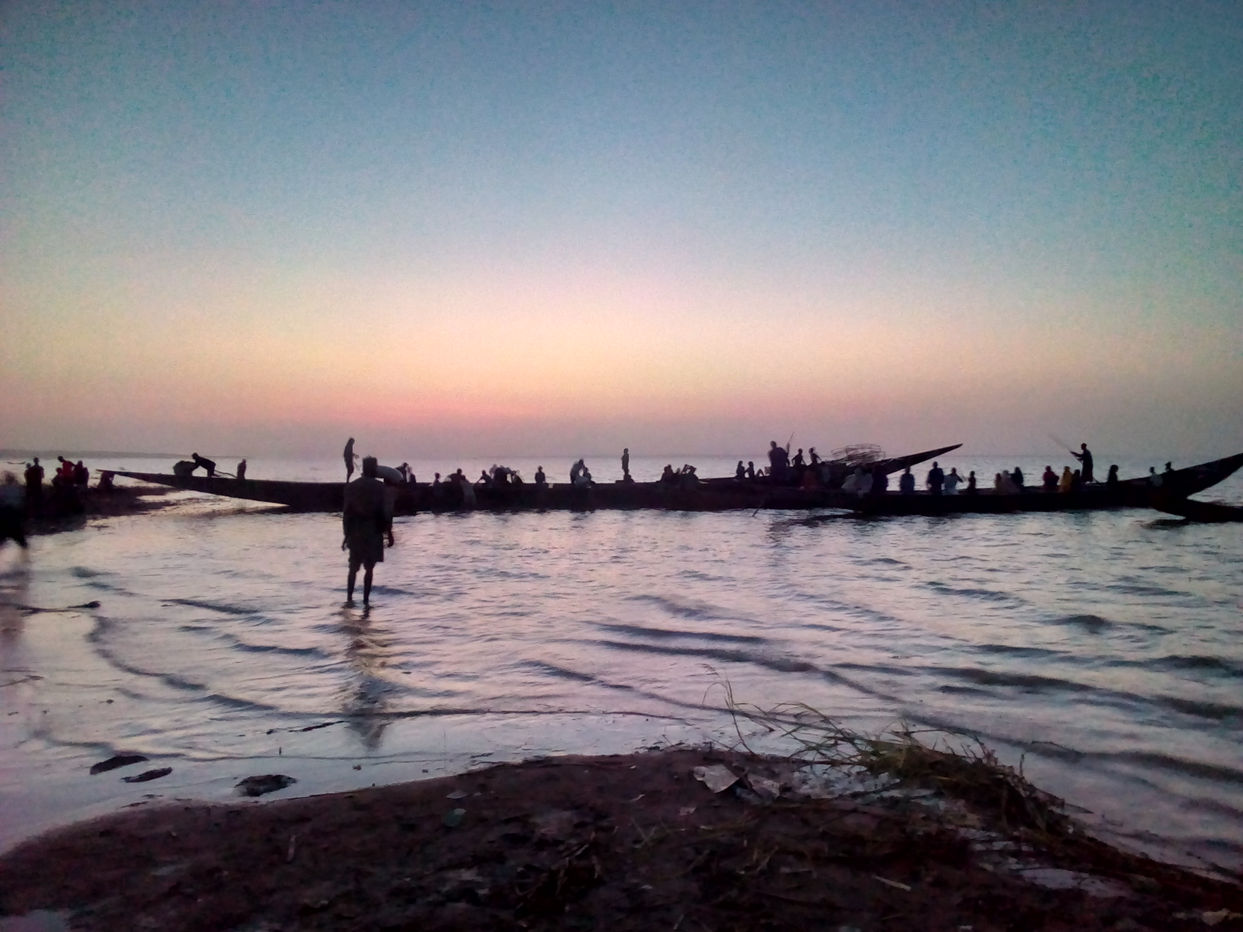 The picture was taken at the end of a market day on the 14th of December in 2018 in Wara, Kebbi State Nigeria by the Kanji lake. The Kanji lake is found in most parts of Kebbi State and ends at the Kanji Dam in Niger State Nigeria. The lake offers a means of transportation for farmers, fishermen and traders all looking to sell their items at the Wara market as well as buyers. At the end of the market day, there is usually a rush to make it into boats and down the lake in different directions that lead home before night falls and the image was captured in one of those moments. This is an image with the theme "Africa on the Move or Transport" from: Nigeria